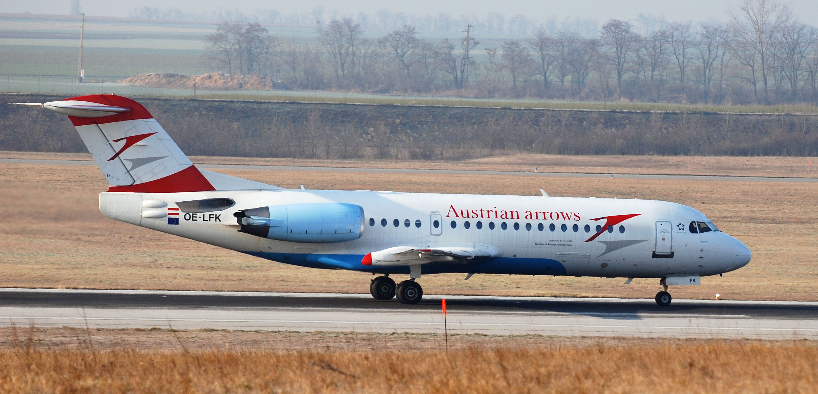 Fokker 70 OE-LFK Vienna International Airport